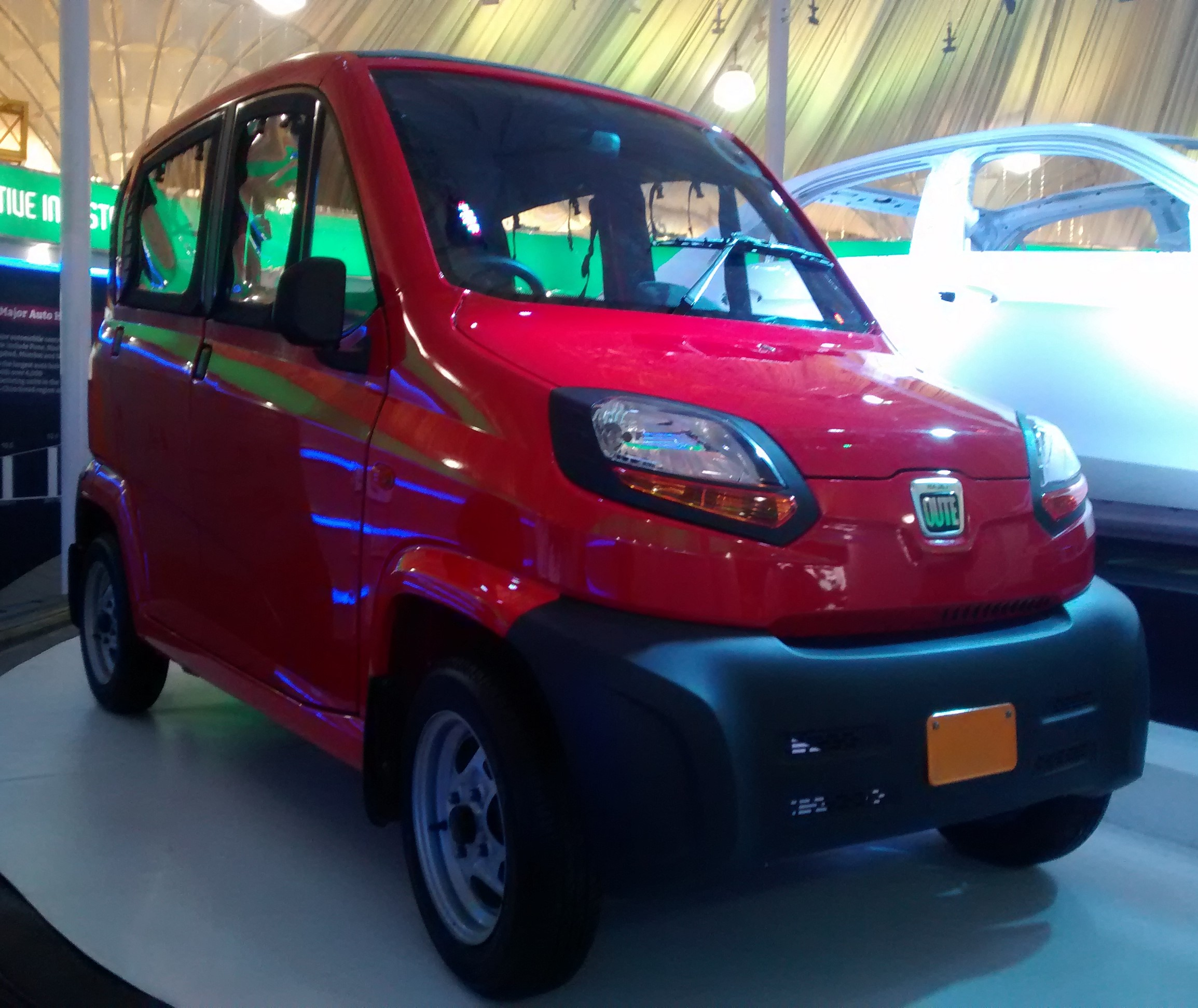 Bajaj Qute